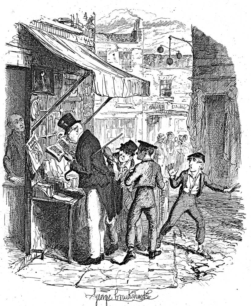 Oliver is shocked when thew Artful Dodger steals Mr Brownlow's handkerchief at the bookstall